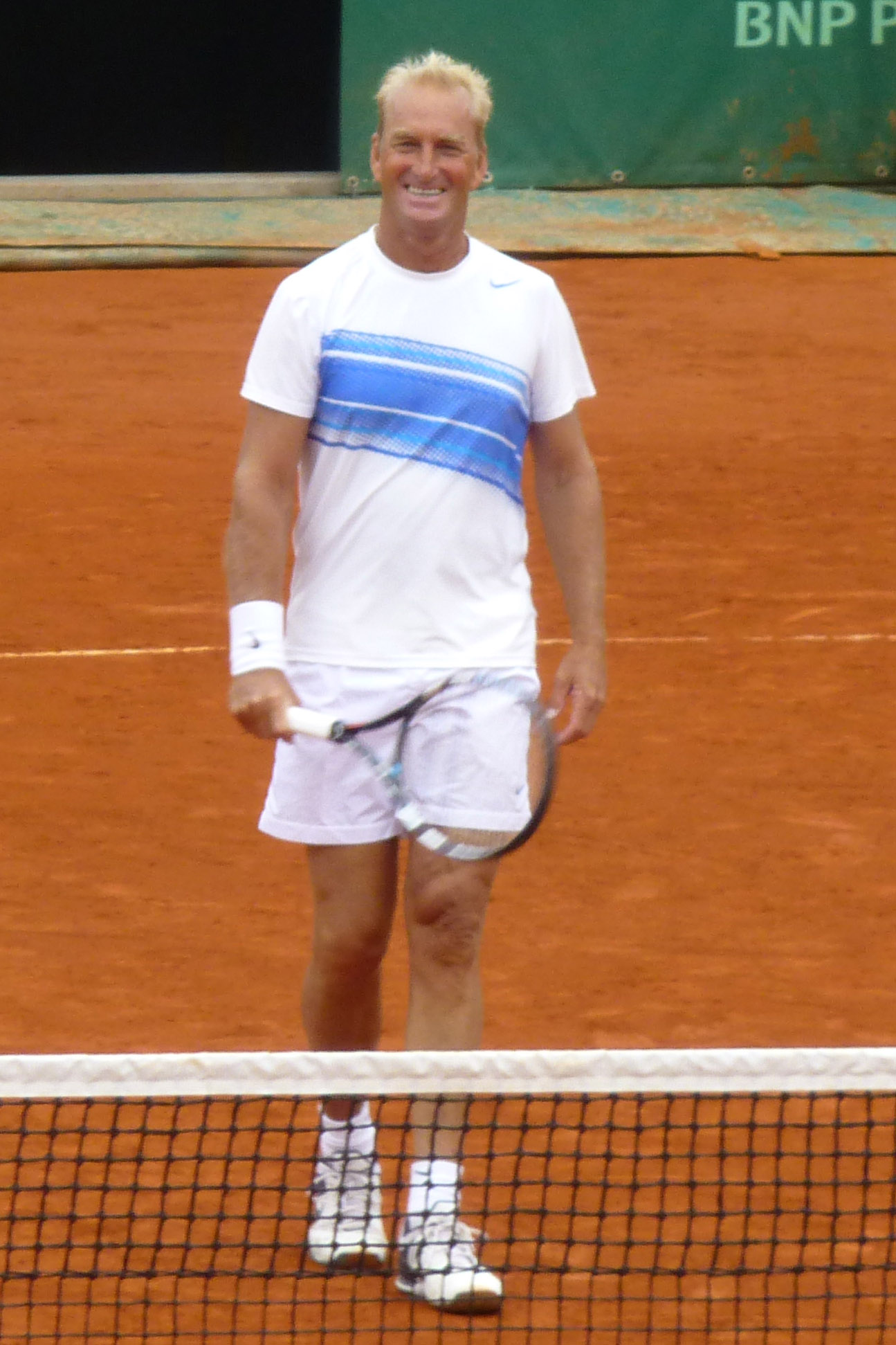 Peter McNamara. Exibiton match during Roland Garros 2012